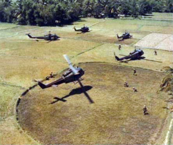 U.S. Army Bell UH–1D Huey helicopters pick up soldiers of the 1st Cavalry Division during operations on the Bong Son Plain, Vietnam, in 1966.